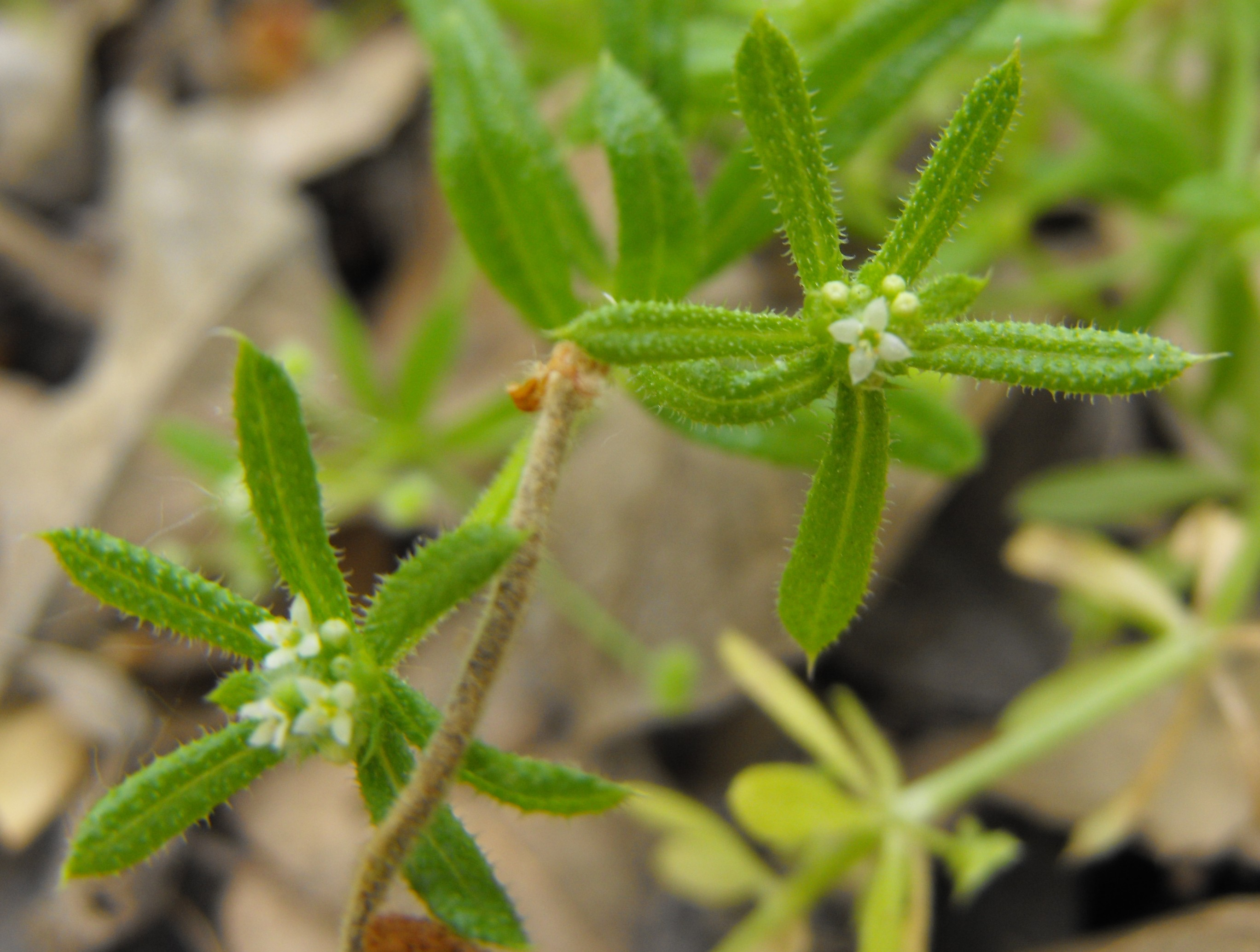 Galium catalinense at the Wild Animal Park, Escondido, California, USA. Identified by sign.